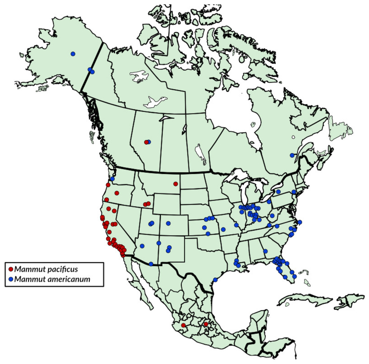 Map of North America showing the distribution of Mammut pacificus (red) and Mammut americanum (blue)